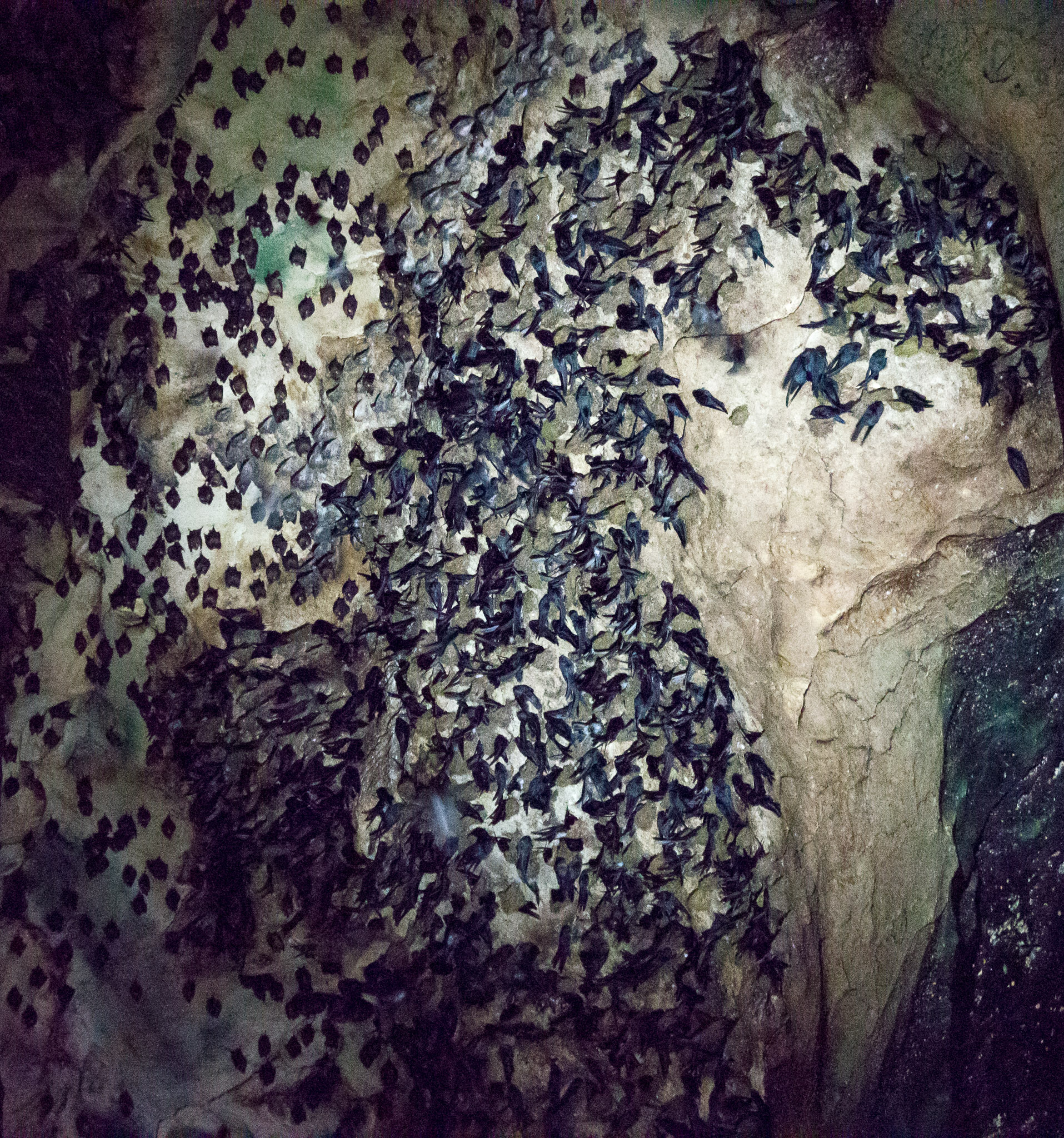 Mossy-nest Swiftlets (Aerodramus salangana), with Wrinkle-lipped Freetail Bats (Chaerephon plicatus) or Creagh's Horseshoe Bats (Rhinolophus creaghi)